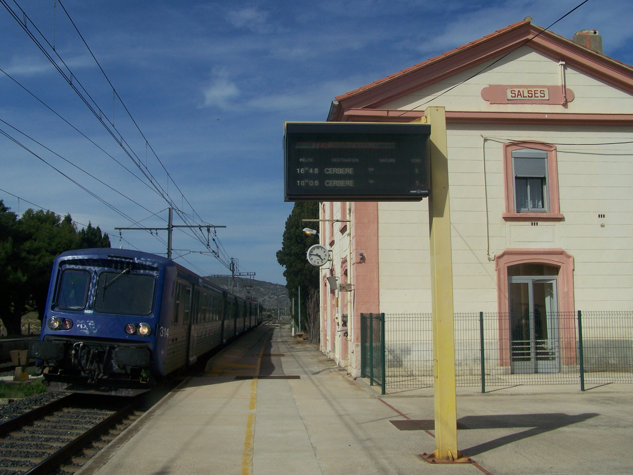 Arriving from Narbonne in Aude and going to Cerbère at the Spanish border, a French regional train is stopping at Salses station, in Pyrénées-Orientales.